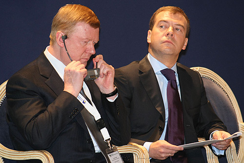 CANNES, FRANCE. At the EU-Russia Industrialists' Round Table. With co-chairman of the EU-Russia Industrialists' Round Table Anatoly Chubais.